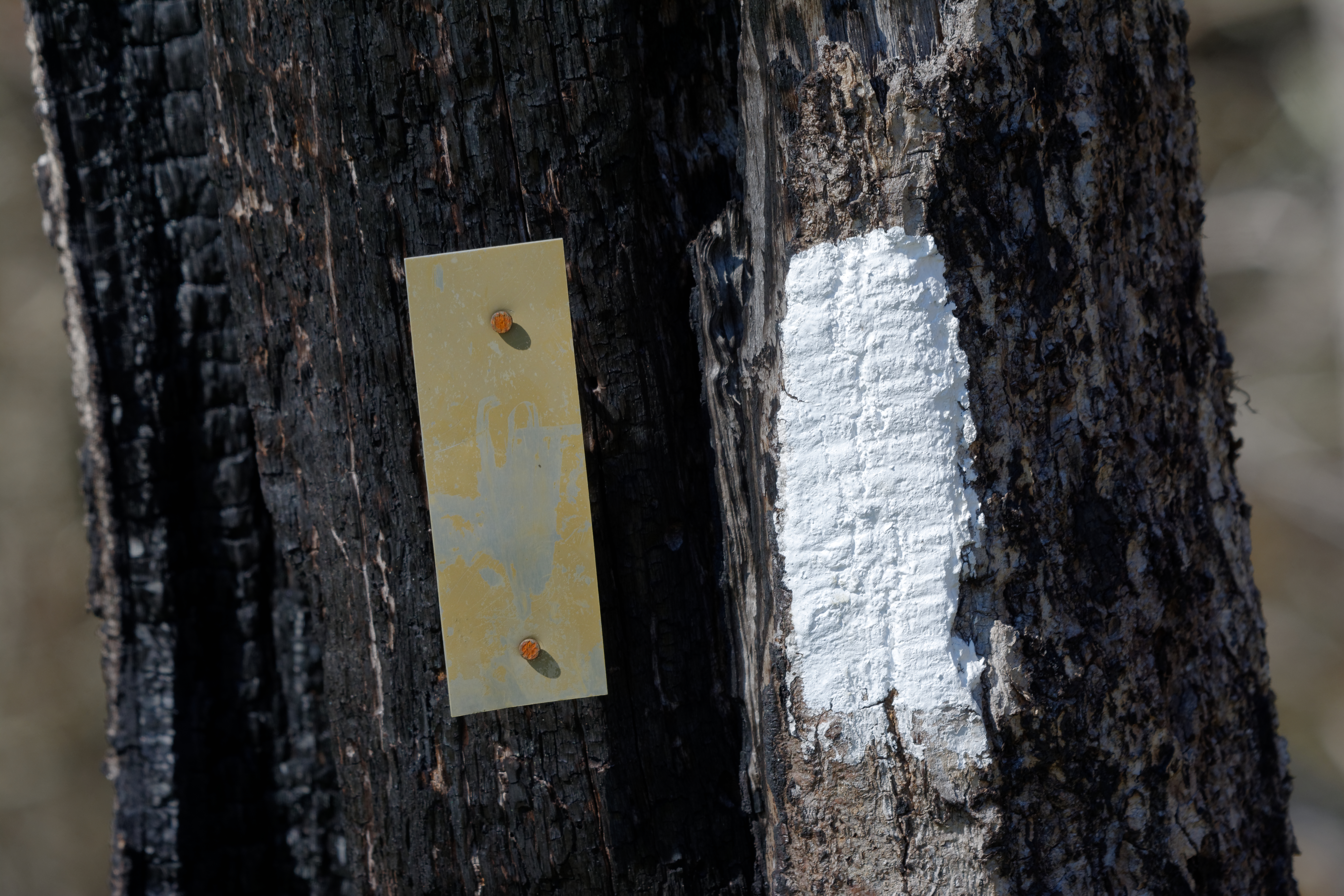 The Appalachian Trail and Bartram Trail meet at Wayah Bald, North Carolina (in the Nantahala National Forest). These are markers for each.